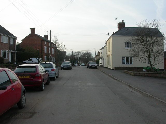 Yelvertoft, High Street In this square, butchers, pub, bus stop, and, of course, houses.